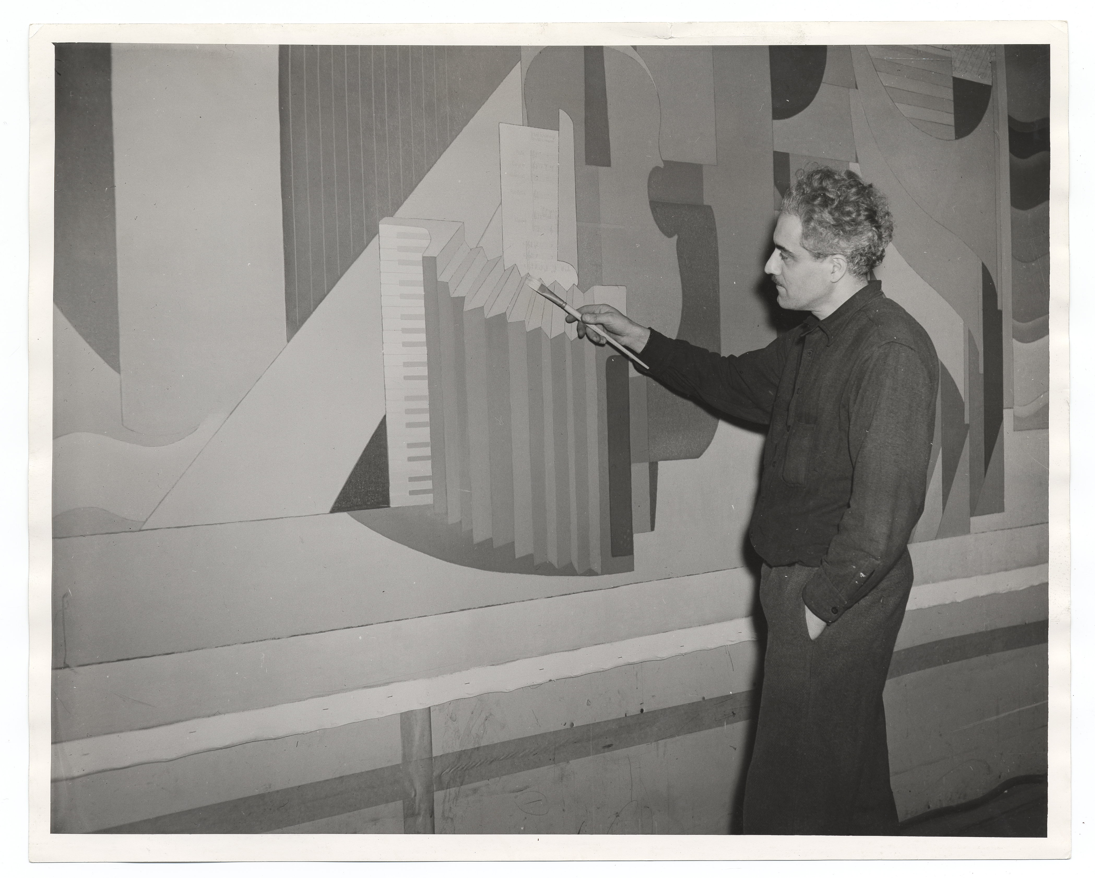 Chanase working on a mural for the WPA Federal Art Project.Identification on verso (handwritten and stamped): New York City W.P.A. Date: 1/26/42; Photogarapher: Shalat; Negative No: P5570-4; Artist: Dane Chanase; Title: Abstraction based on Music; Location: Welfare [?] Chronic Disease Hospital